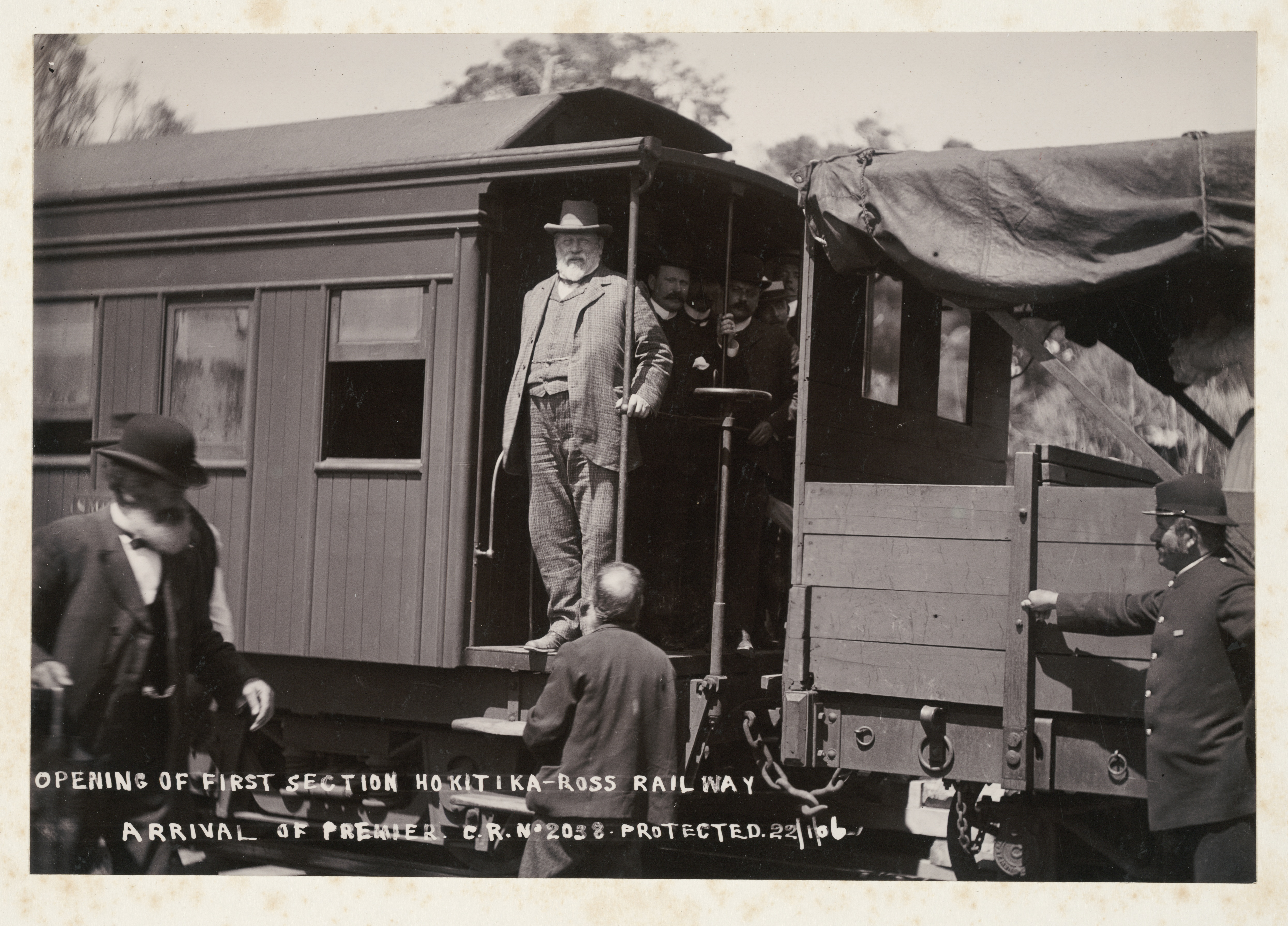 Photographer: James Ring Premier Seddon arriving at the opening of the first section of the Hokitika-Ross railway, West Coast, ca 22 Jan 1906 Silver gelatin print Reference No. PA1-o-436-20-1 Photographic Archive, Alexander Turnbull Library, National Library of New Zealand Find out more about this image Alexander Turnbull Library.